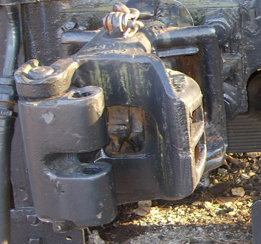 Early Janney-type AAR coupler with a slotted knuckle which allowed unmodified link-and-pin equipped cars to still be coupled to the updated equipment.